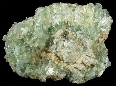 Talc Locality: Vermont Verde Antique International quarry, Rochester, Windsor County, Vermont, USA (Locality at ) Size: small cabinet, 9.3 x 6.9 x 3.6 cm Talc The Vermont talc specimens are generally considered the prettiest crystallized talcs. First off, it is green - and most talc is just plain old white. Secondly, it is from a classic, defunct, and important US locality. And lastly, it is aesthetic, with freestanding crystals all over the place, instead of tightly compacted masses as you usuaully see from here and from other locales where talc occurs purely. The classic Italian examples are as fine in crystalography, but i have not seen a big and green one. A beautiful, interesting piece - and yes, it DOES feel like talc, when you touch it. ex. Ken Hollman Collection